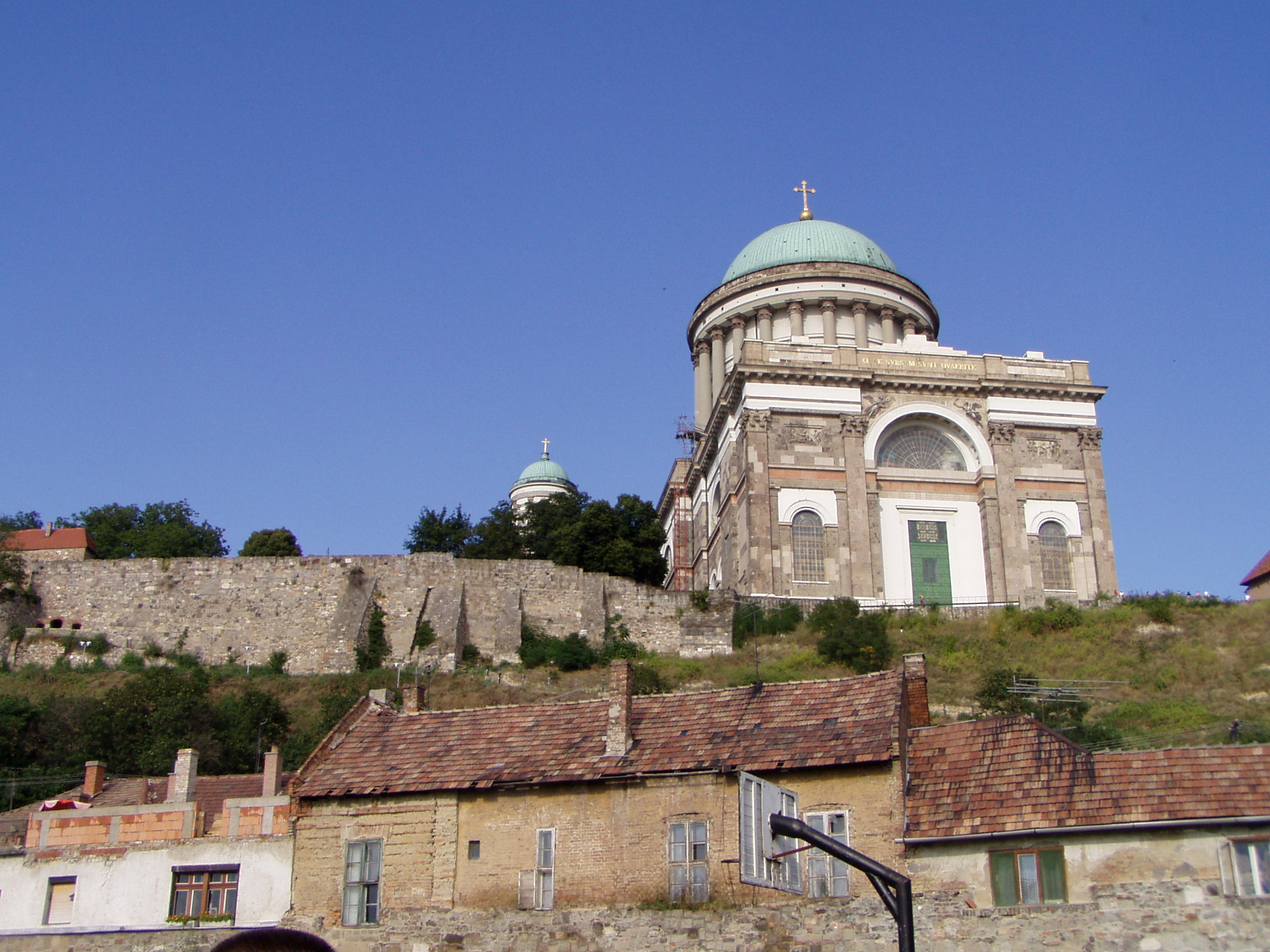 Basilica in Esztergom